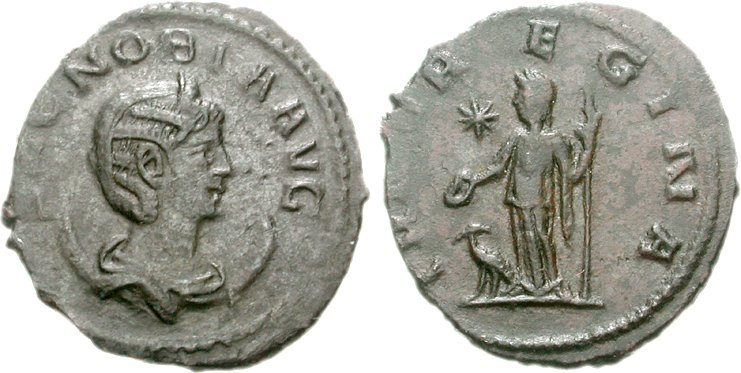 Zenobia. Usurper, AD 268-272. Antoninianus (3.64 g, 6h). Antioch mint, 8th officina. 2nd emission, March-May AD 272. S ZЄNOBIA AVG, draped bust right, wearing stephane, set on crescent; IVNO REGINA, Juno standing left, holding patera in right hand and scepter in left; at feet to left, peacock standing left; star in left field. RIC V 2 corr. (no star); MIR 47, 360b/0; BN 1267a. EF, brown patina. From the Gordon S. Parry Collection. Ex Triton III (1 December 1999), lot 1167.